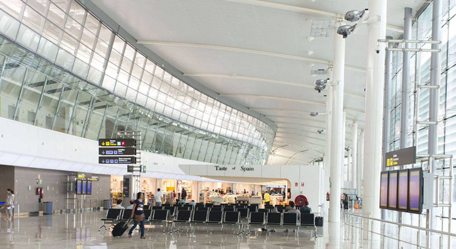 Airport of Valencia T2